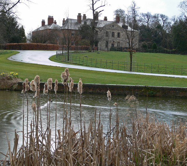 Baggrave Hall The sole surviving building of the medieval village of Baggrave.